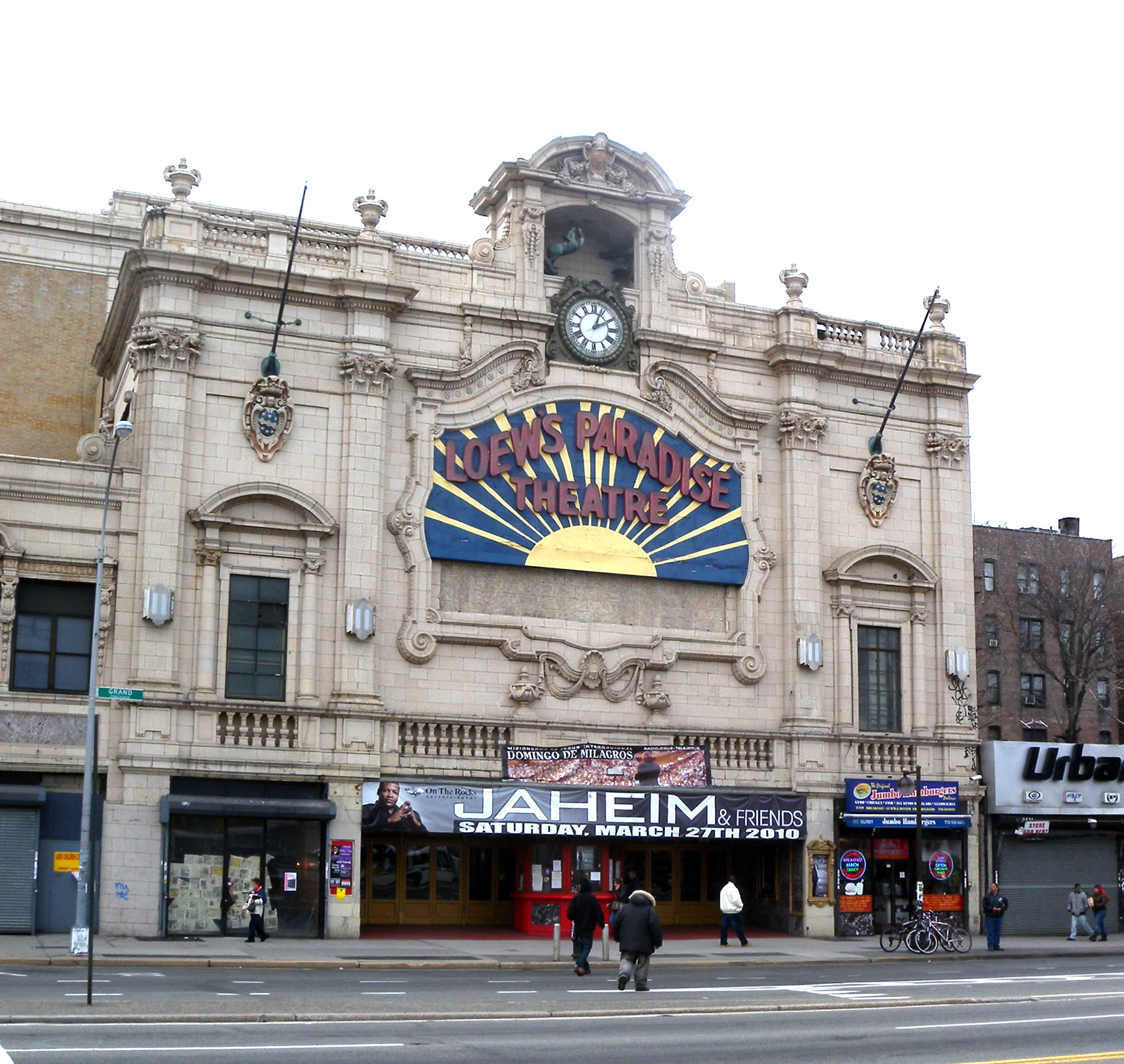 Looking west across Grand Concourse at Paradise Theater on a cloudy afternoon.